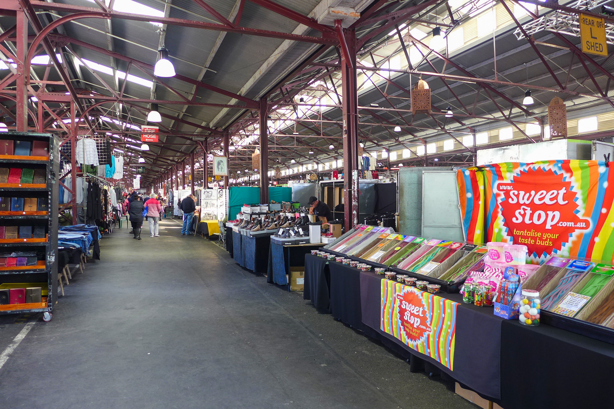 Queen Victoria Market